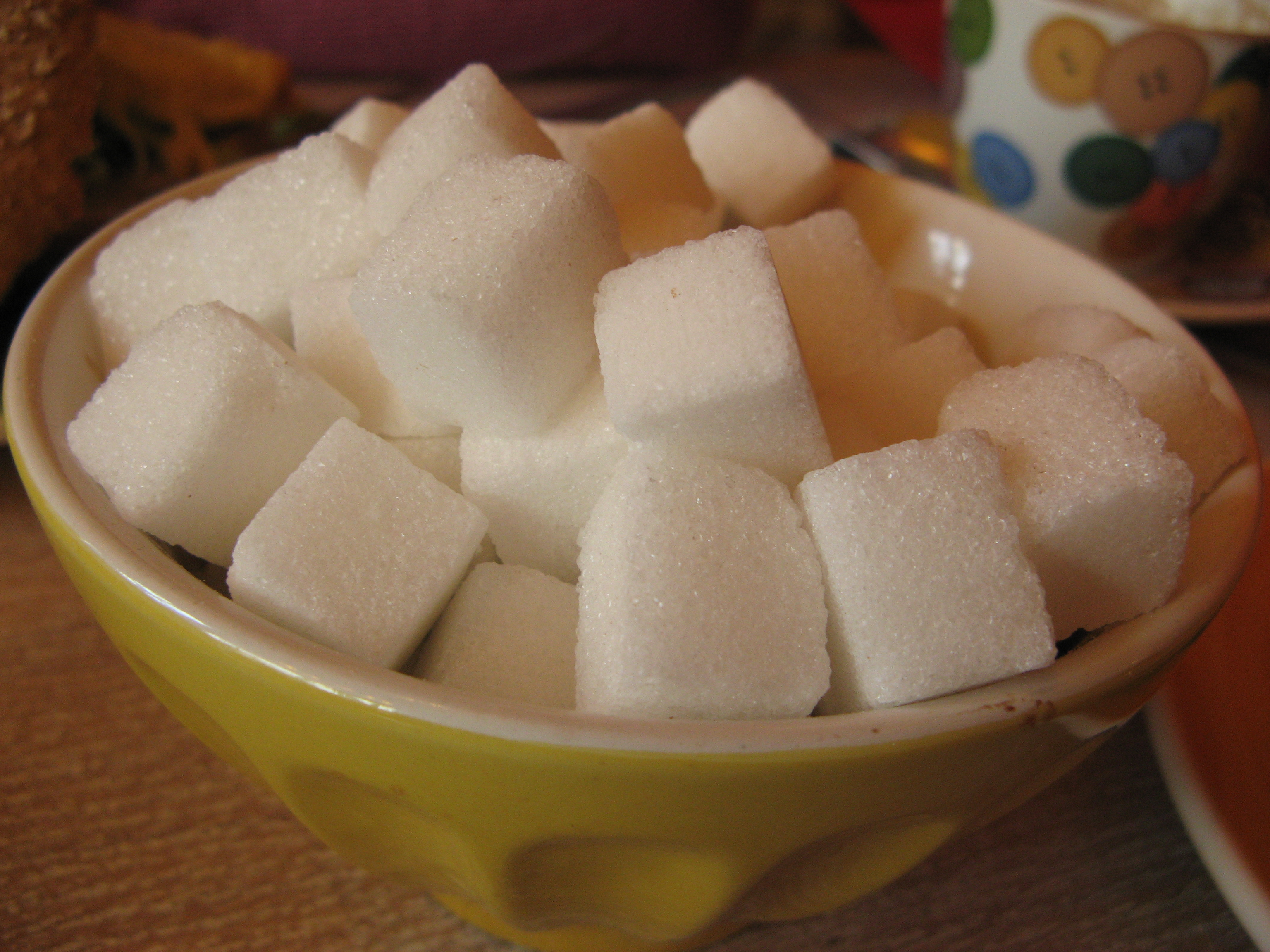 Sugar cubes.